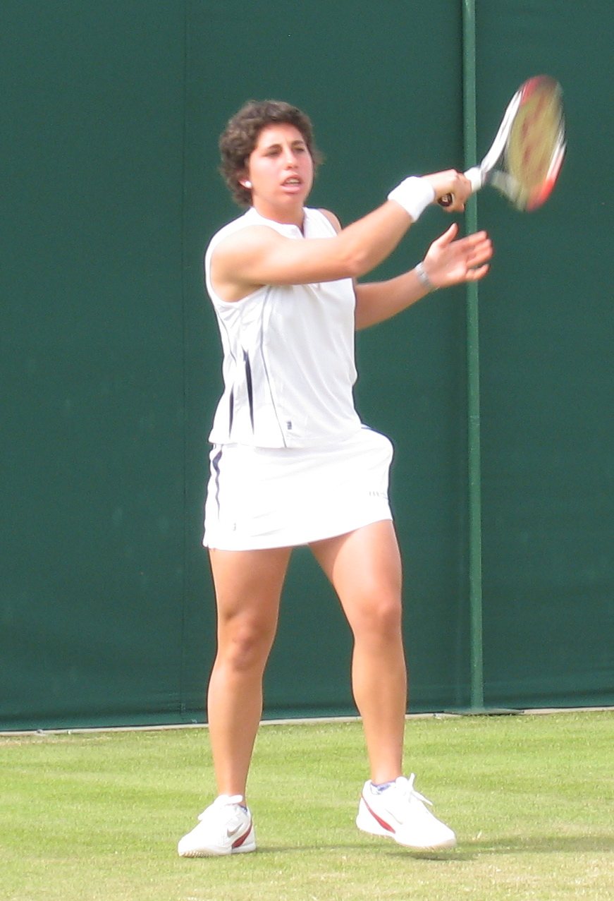 Carla Suarez Navarro at Wimbledon 2008